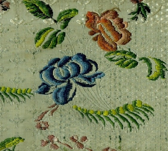 Detail of brocaded silk, second half of the 18th century